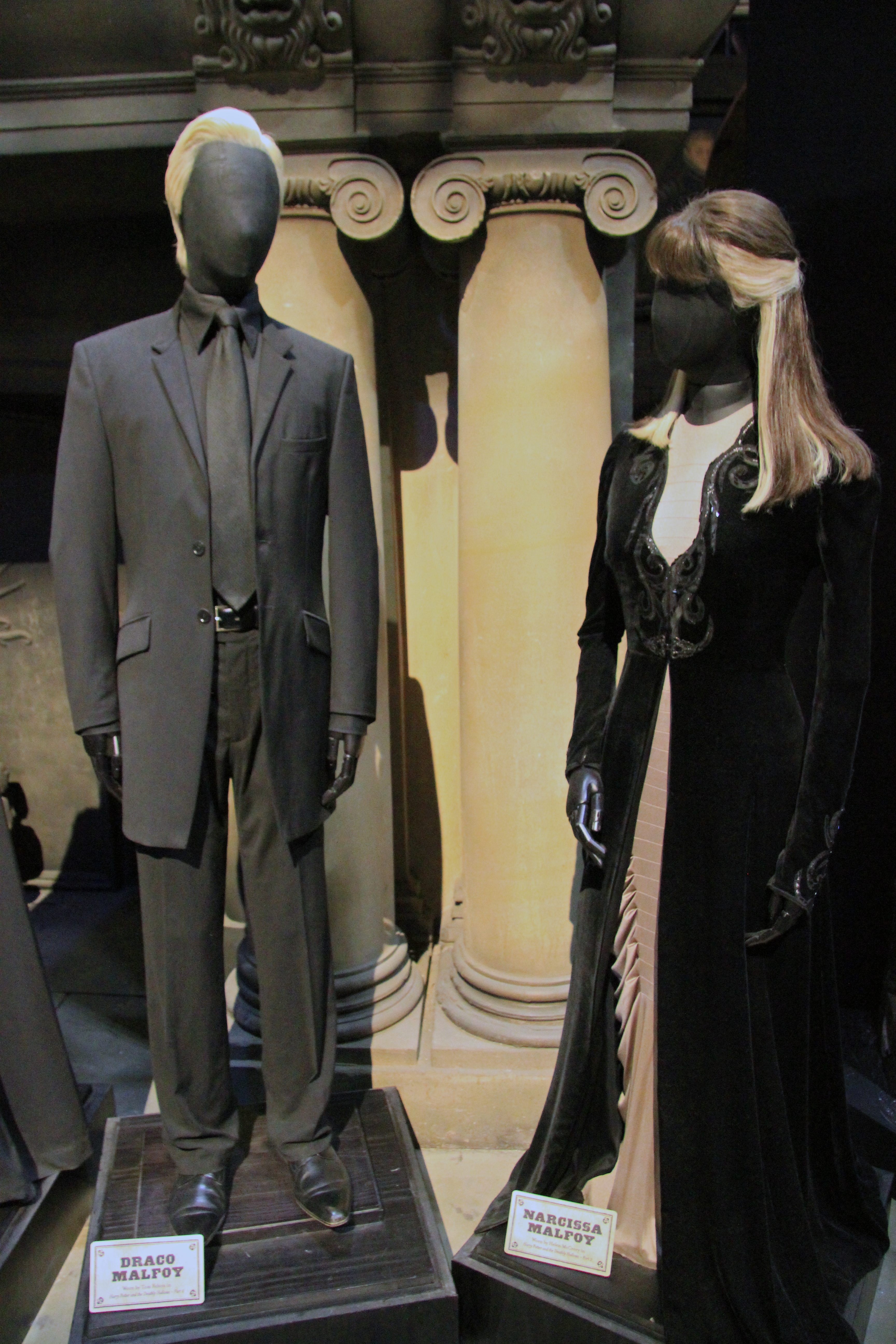 Warner Bros. Studio Tour London: The Making of Harry Potter.